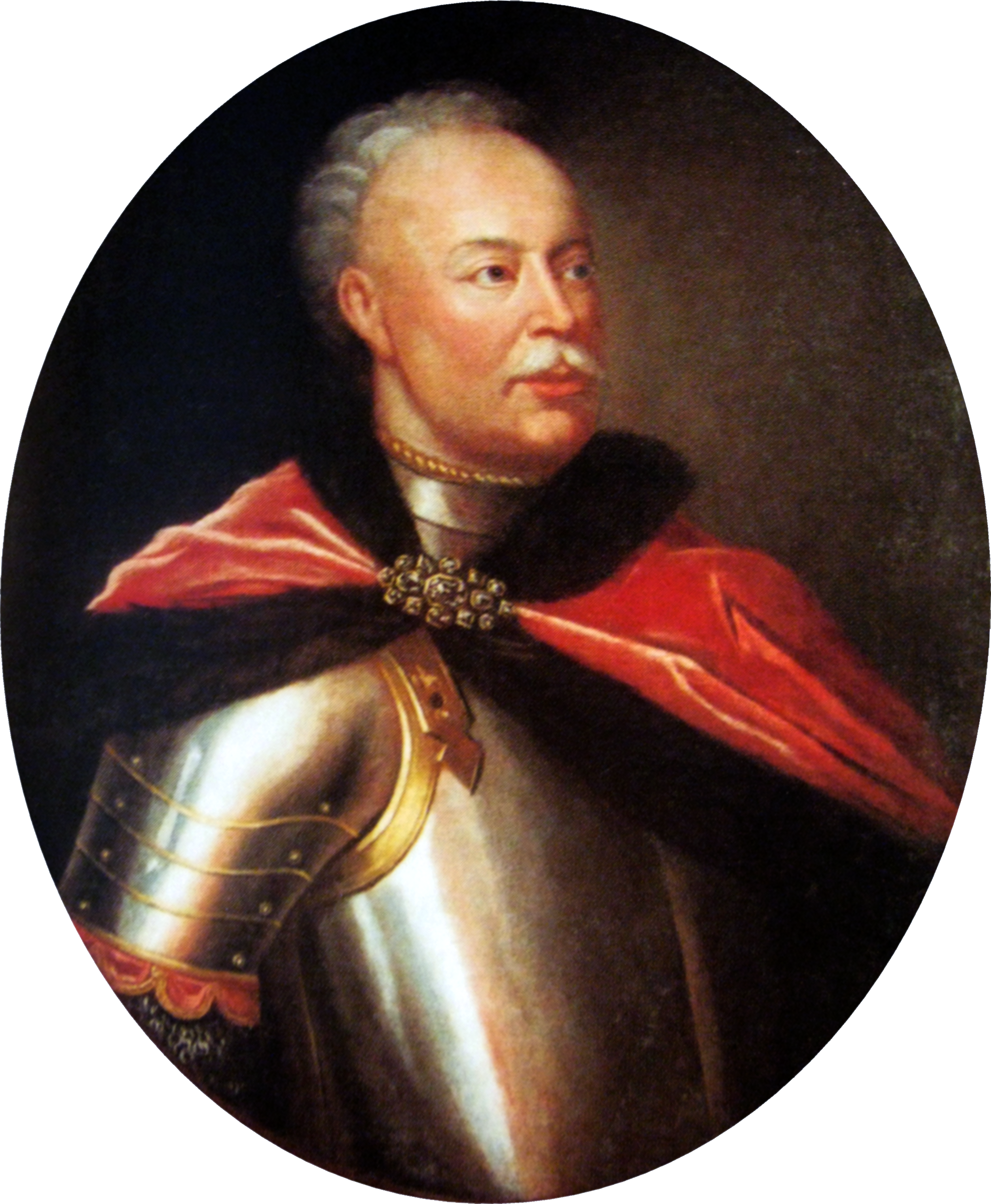 Portrait of Jan Jakub Zamoyski (1716-1790)